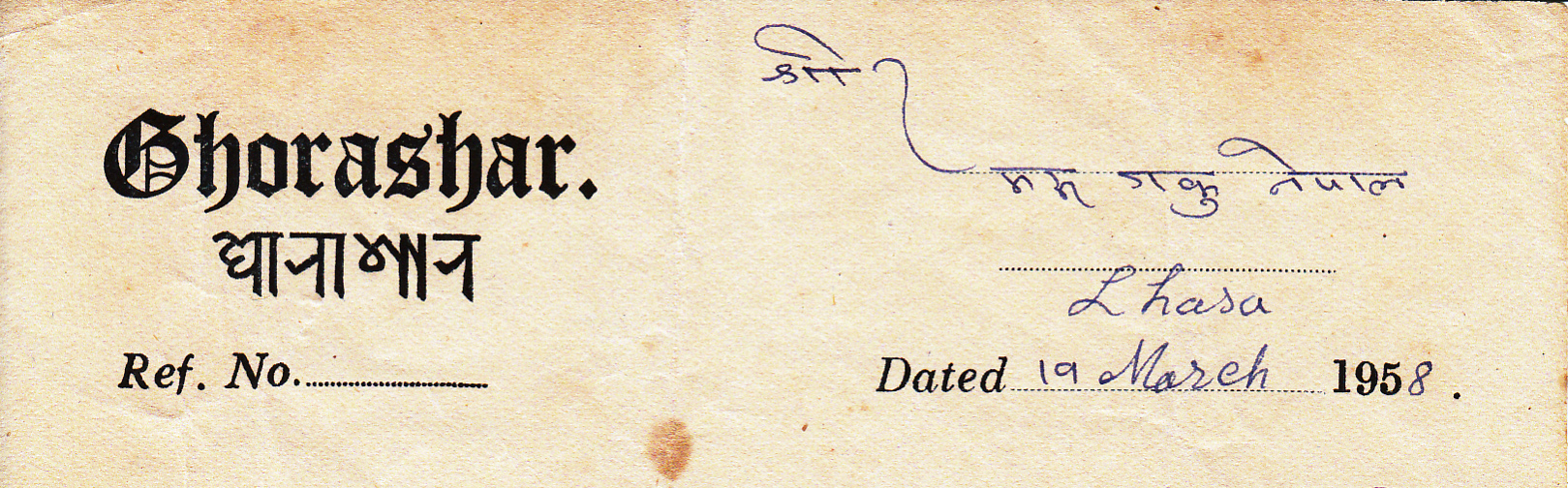 Letterhead of Nepalese business house Ghorashar based in Lhasa, Tibet dated 1958.